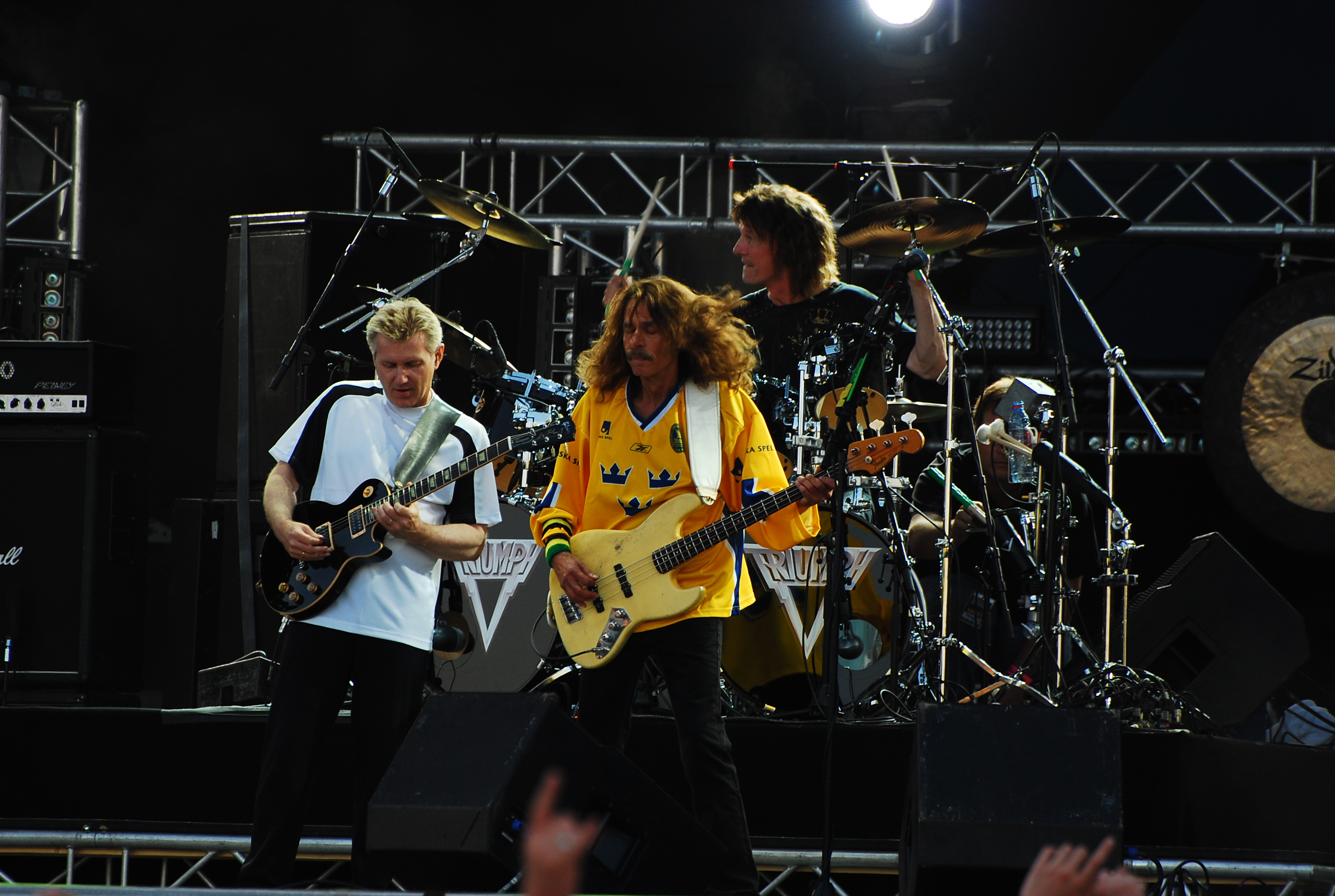 Triumph performing at Sweden Rock, 2008. Showing all three original members.